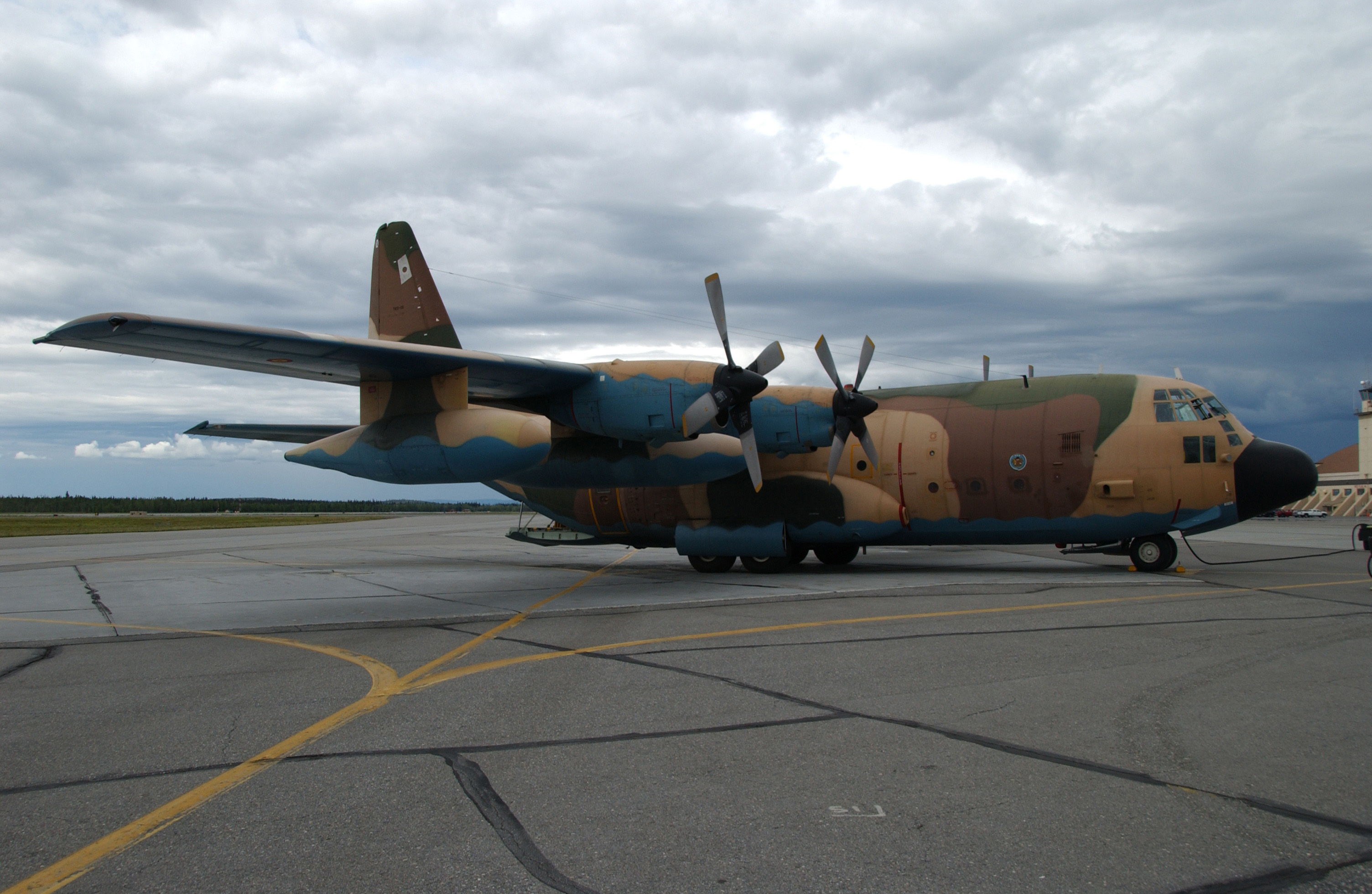 A Spanish air force C-130 Hercules aircraft parks on the flightline to unload cargo for their stay during Red Flag-Alaska 07-3 at Eielson Air Force Base, Alaska, July10, 2007.